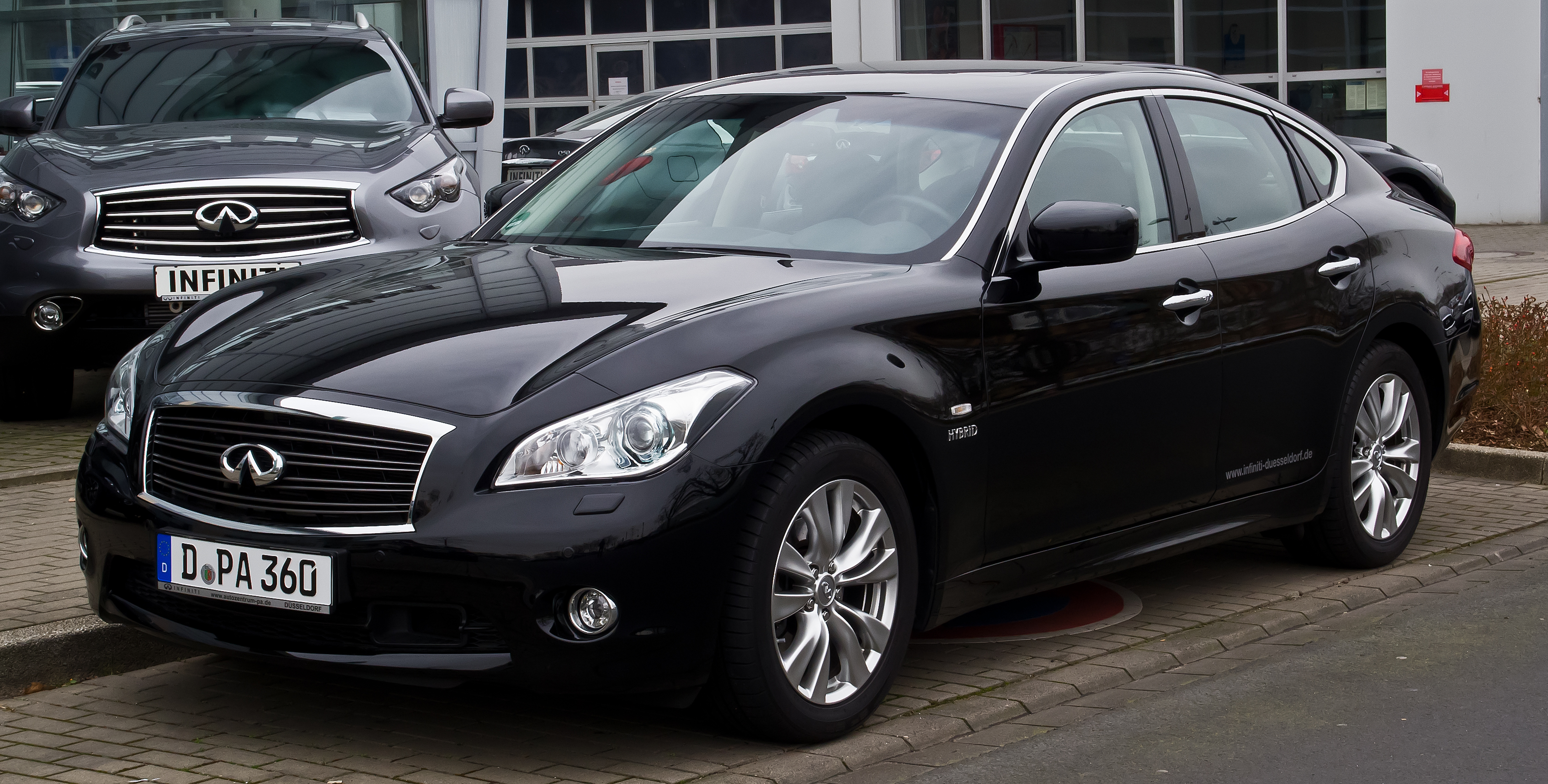 Infiniti M35h GT Premium (Y51)